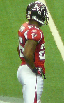 If used somewhere other than Wikipedia, Nelson, by name.